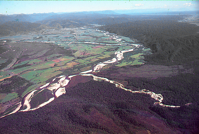 Inangahua Valley looking south from above Cronadun.jpg